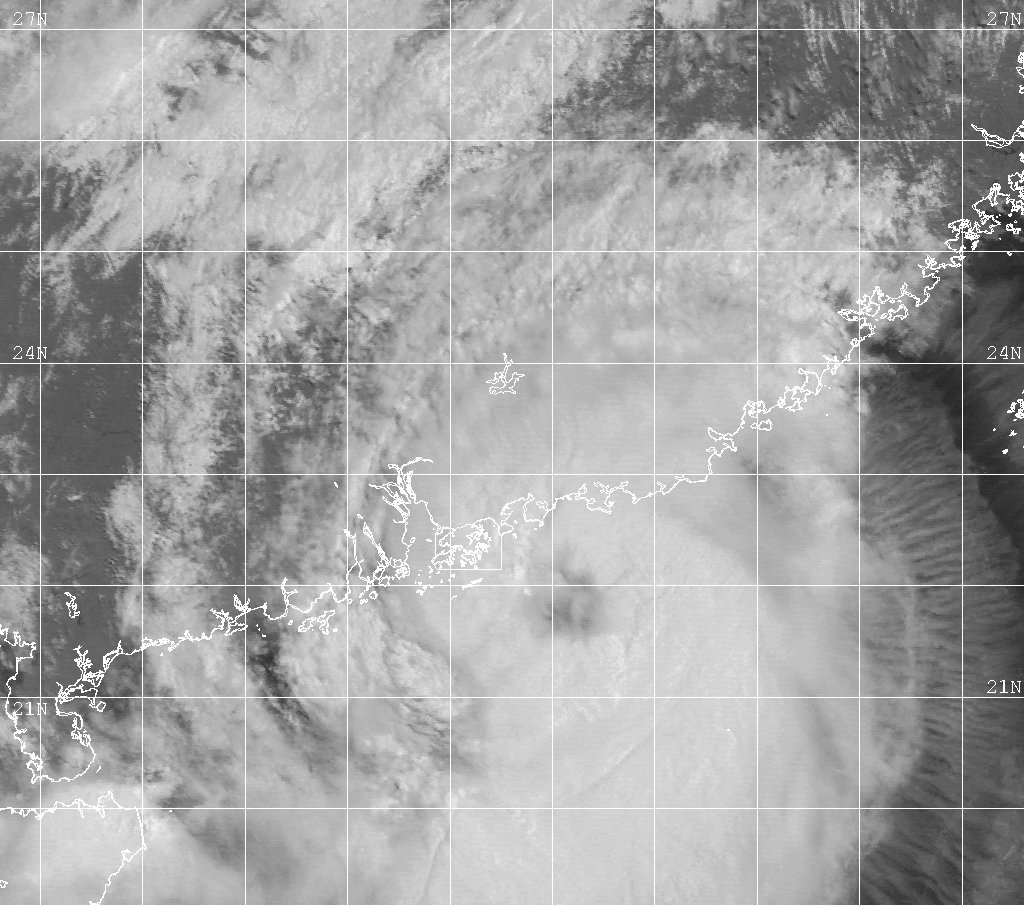 Visible image from GMS-5 of Typhoon Sam on 1999-08-22, just to the southeast of Hong Kong. At the time Sam was at its peak with 75 knot winds.